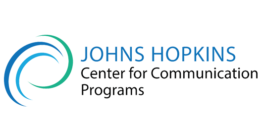 Programu ya mawasiliano katika Chuo Kikuu cha Johns Hopkins (JHUCCP)